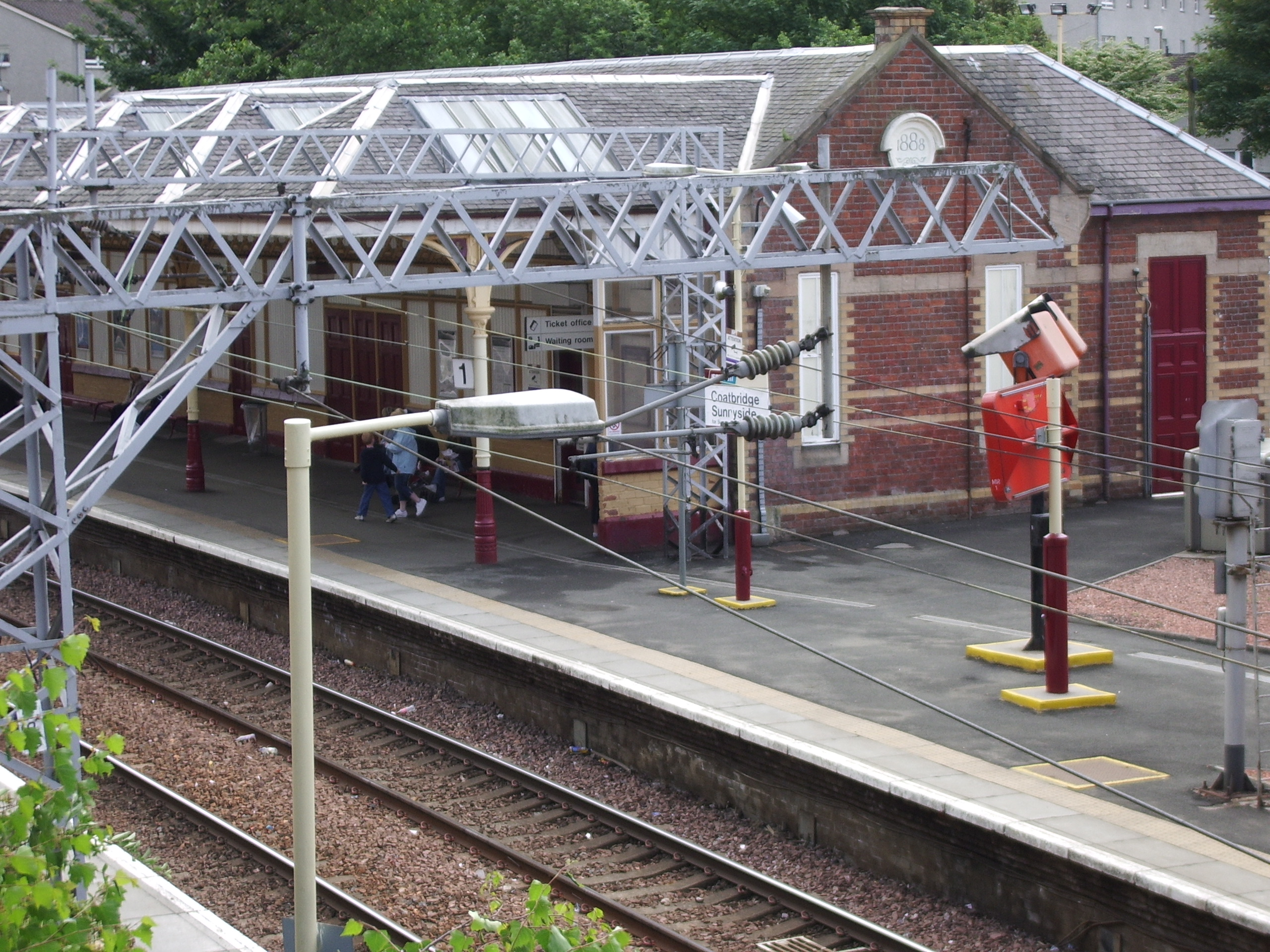 Coatbridge Sunnyside railway station, ticket office, Coatbridge, Scotland, looking south